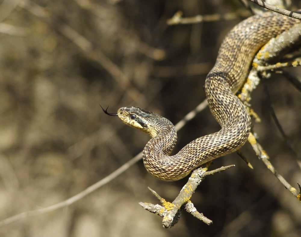 Elaphe sauromates (Mykolayiv region, south Ukraine)